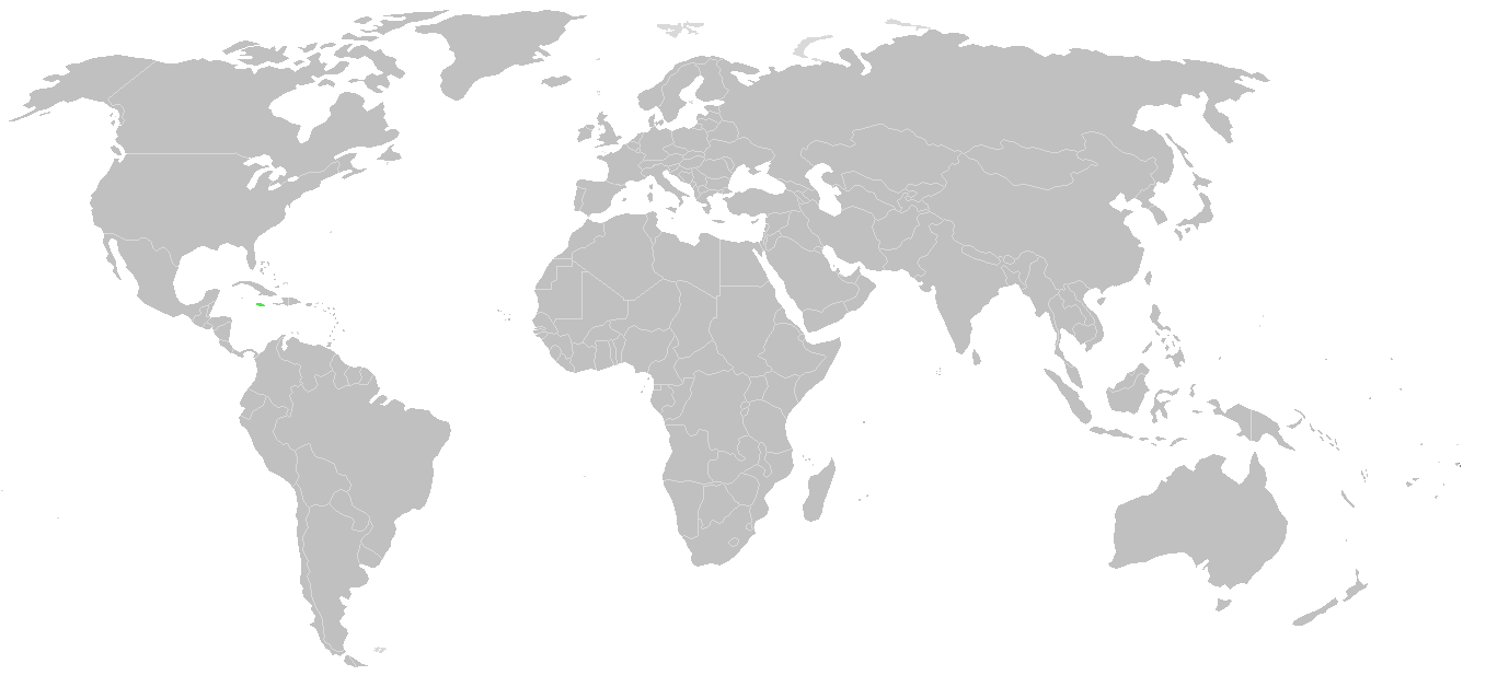 Known world distribution of jumping spider genus Paradecta (Jamaica).